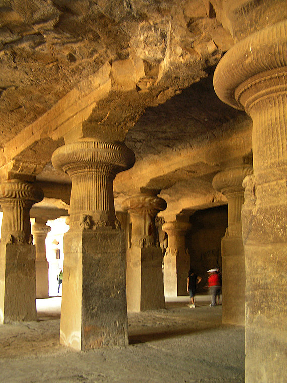 Inside the great cave